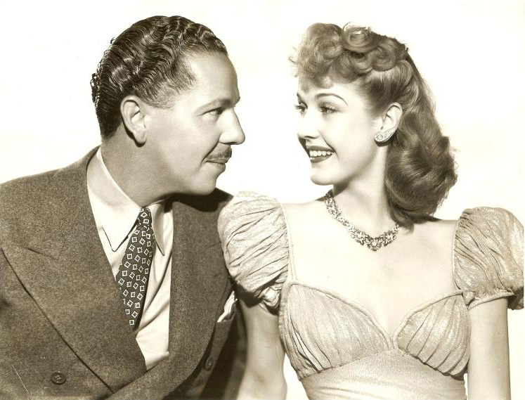 Promotion photo from Glamour for Sale 1940, featuring Anita Louise and Roger Pryor